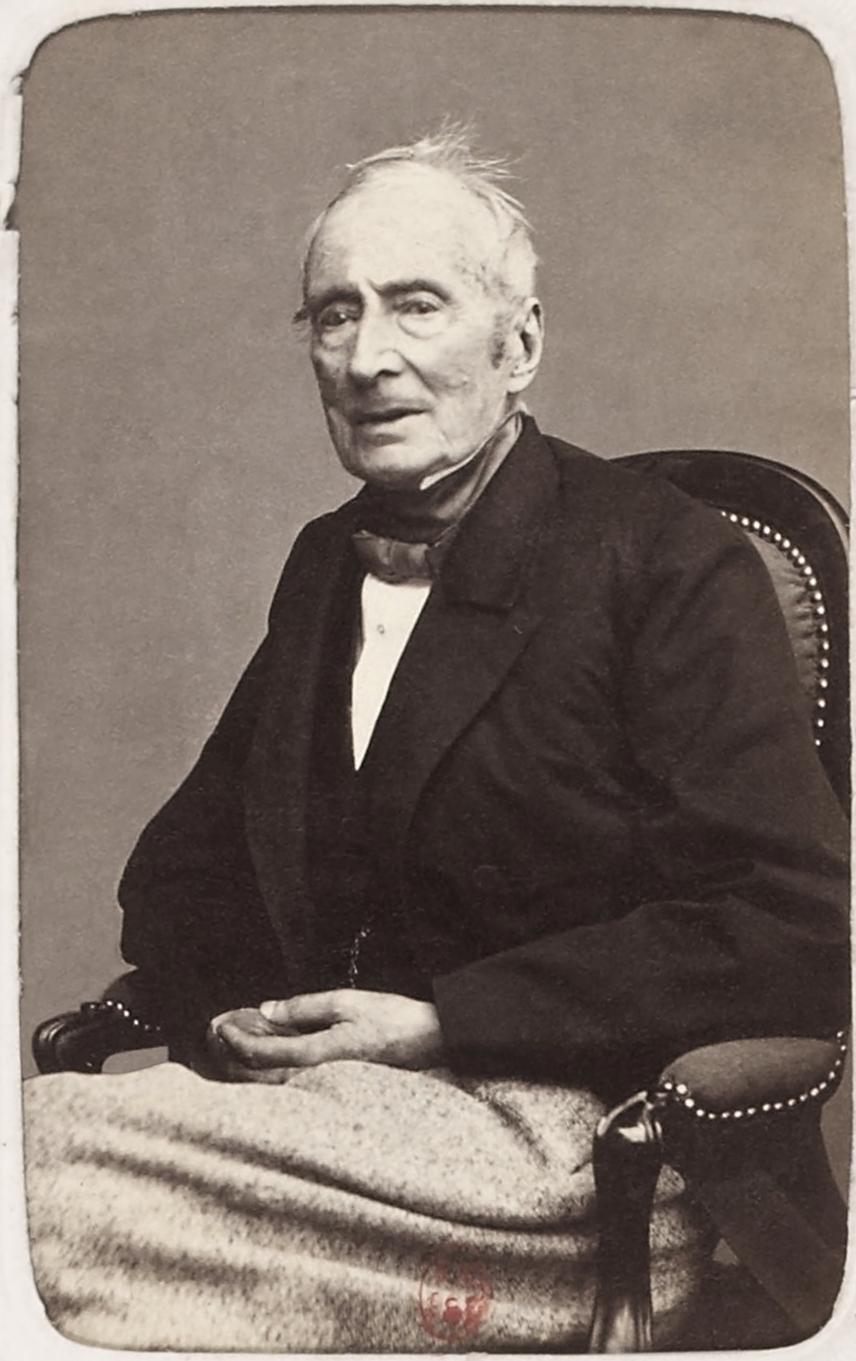 Alphonse de Lamartine (1790-1869)